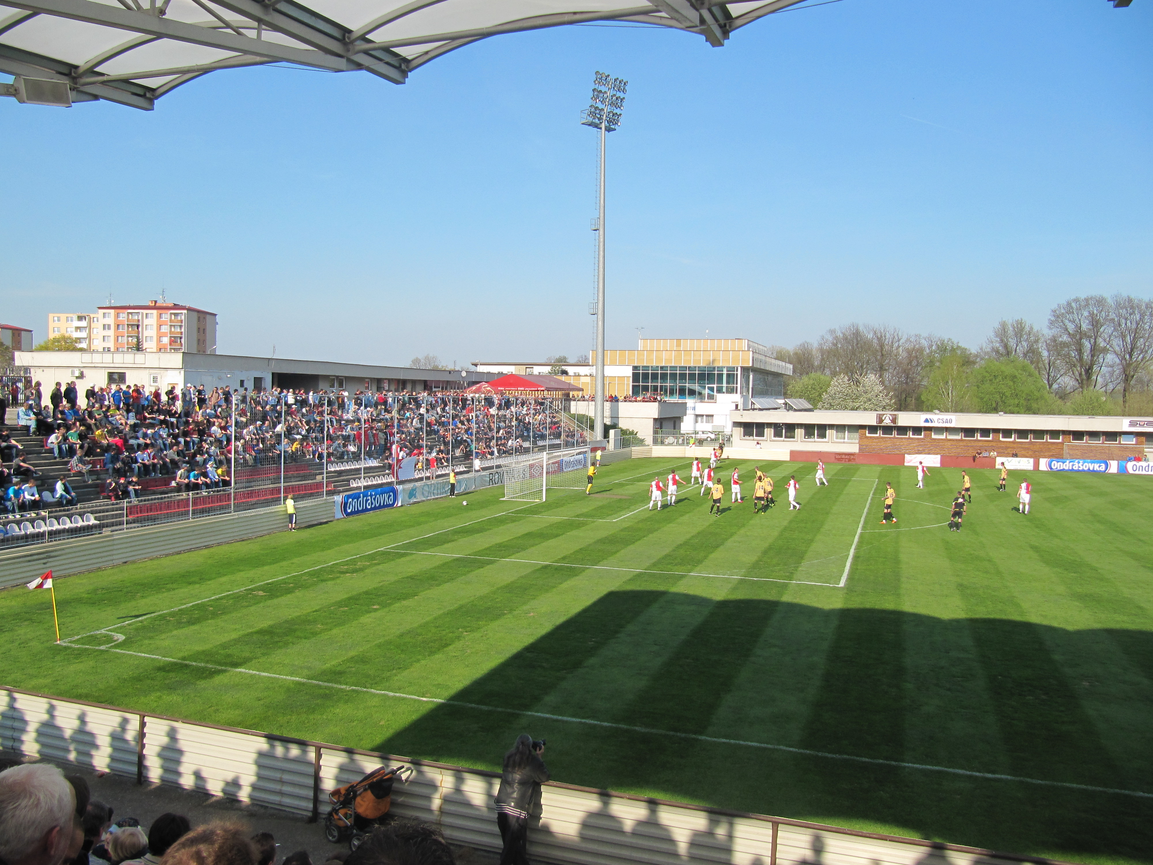 HS Kroměříž-Zbrojovka Brno